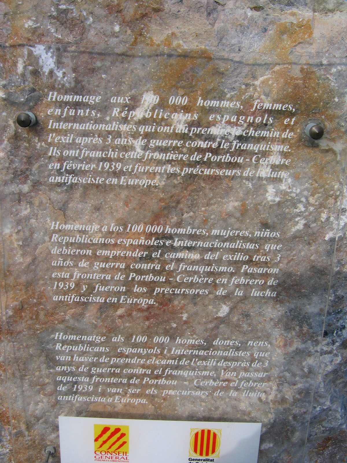 Hommage to the Spanish Republicans and members of the International Brigades at the Balistres Pass on the Spain-France border